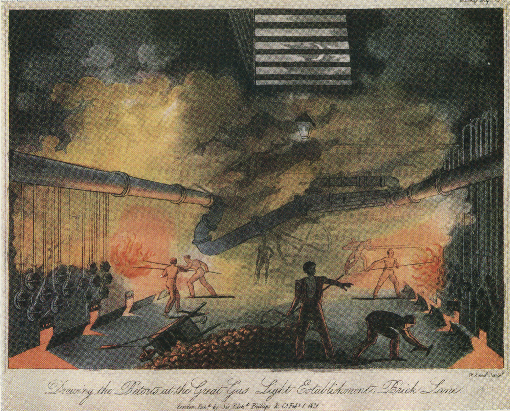 Drawing the retorts at the Great Gas Works at Brick Lane